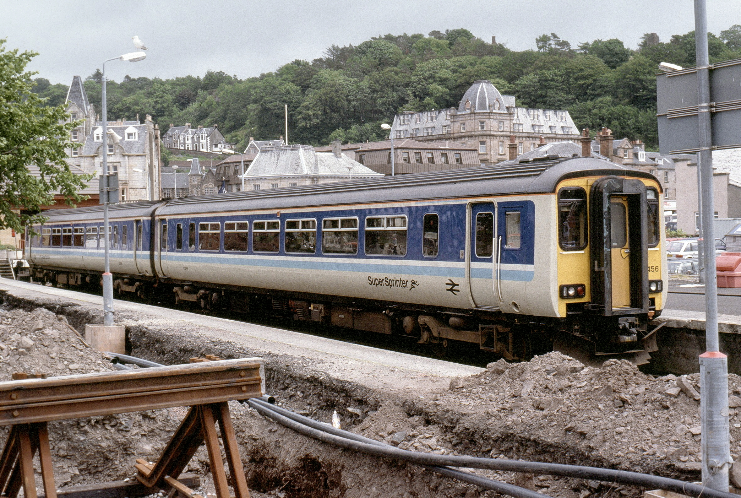 Oban Station with BR Super Sprinter